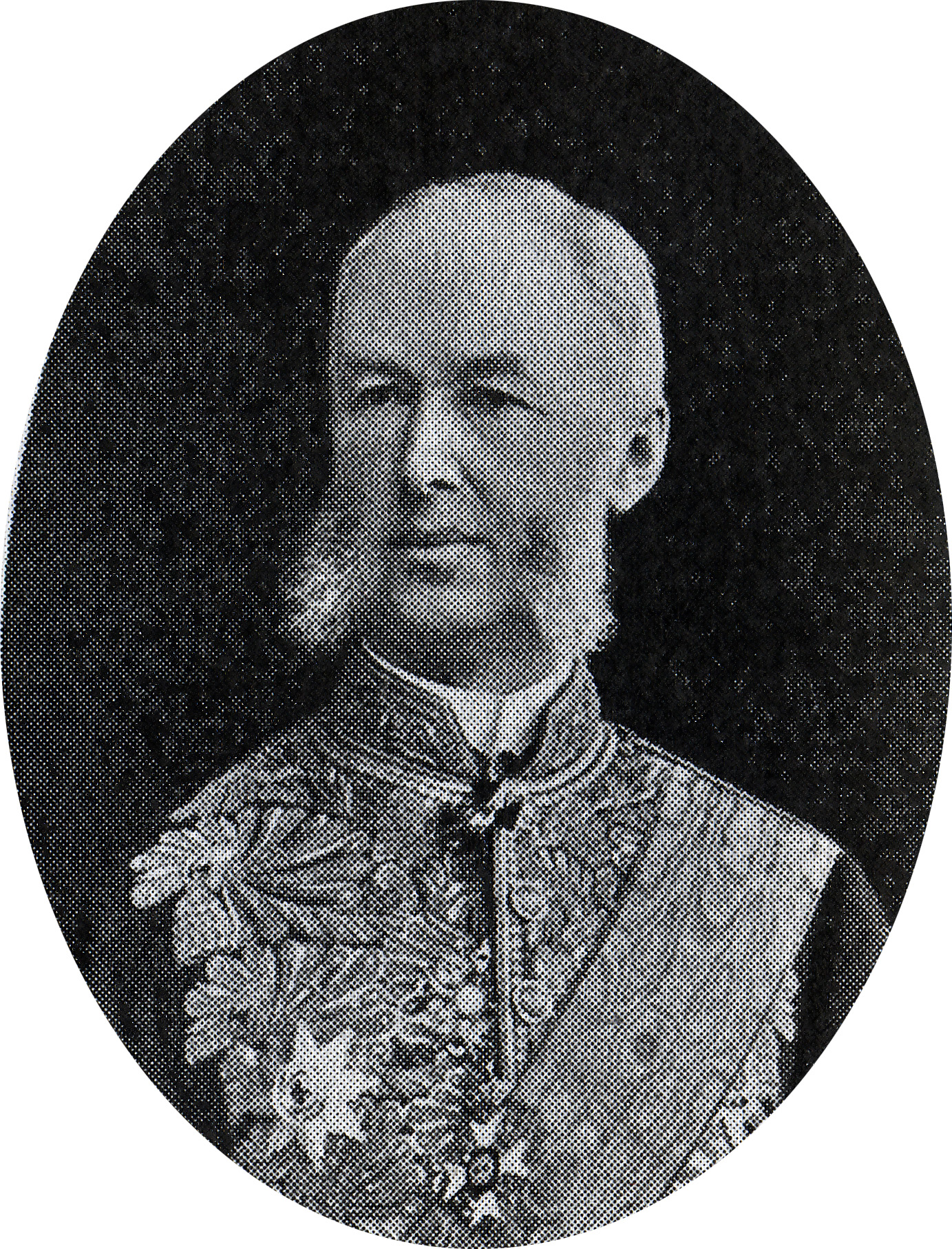 K. F. Ordin (1835–1892), a Russian historian interested in Finnish autonomy; picture originally published in the front cover of his book Sobranye sochineniy po finlyandskomu voprosu in 1908.